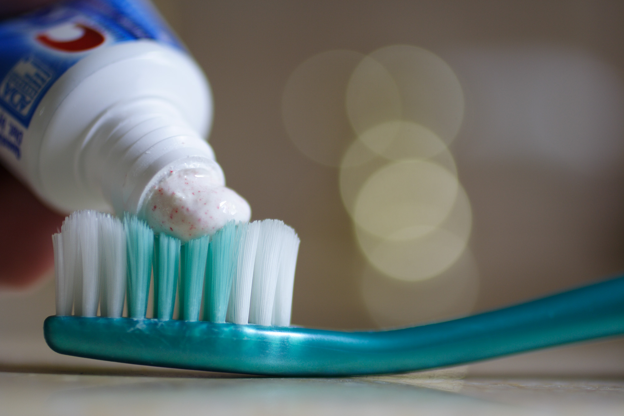 Putting toothpaste on a toothbrush. The toothpaste is Crest Pro-Health Clean Cinnamon, 0.454% stannous fluoride, 0.16% w/v fluoride ion.